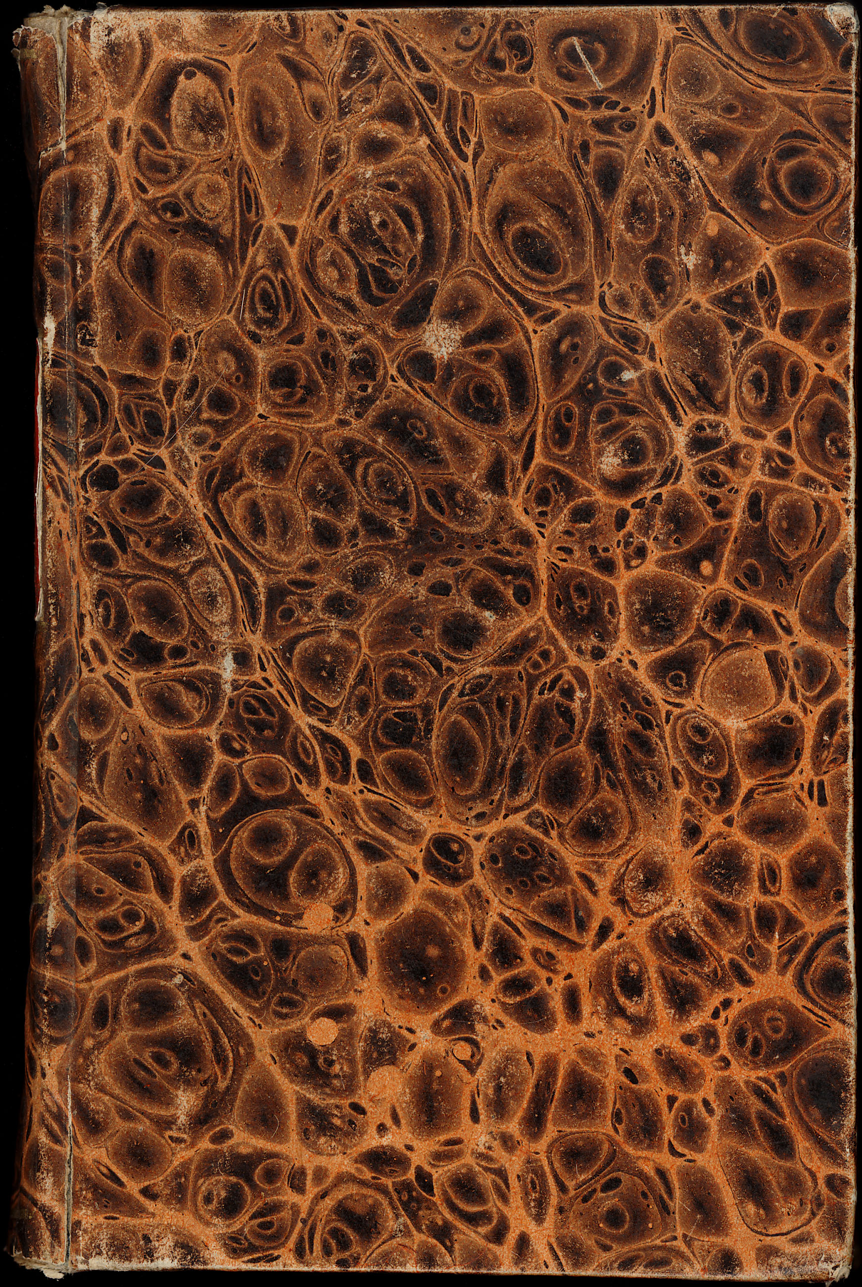 Cover with marbled paper from a little book (height about 13 cm) bound in France around 1825. This is a typical example for simple marbled papers as used in the 19th century frequently for book binding.